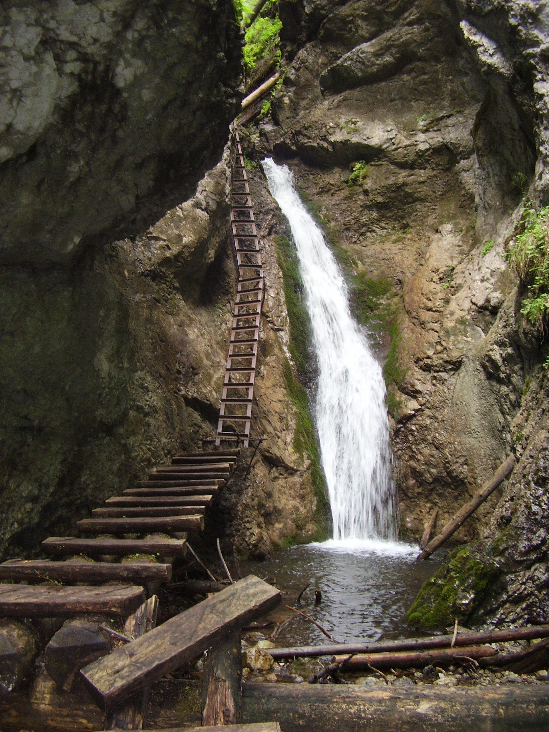 Waterfall and hiking trail in Veľký Sokol canyon, Slovak Paradise National Park, Slovakia.